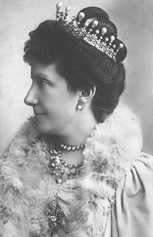 Portrait of Infanta Paz of Spain